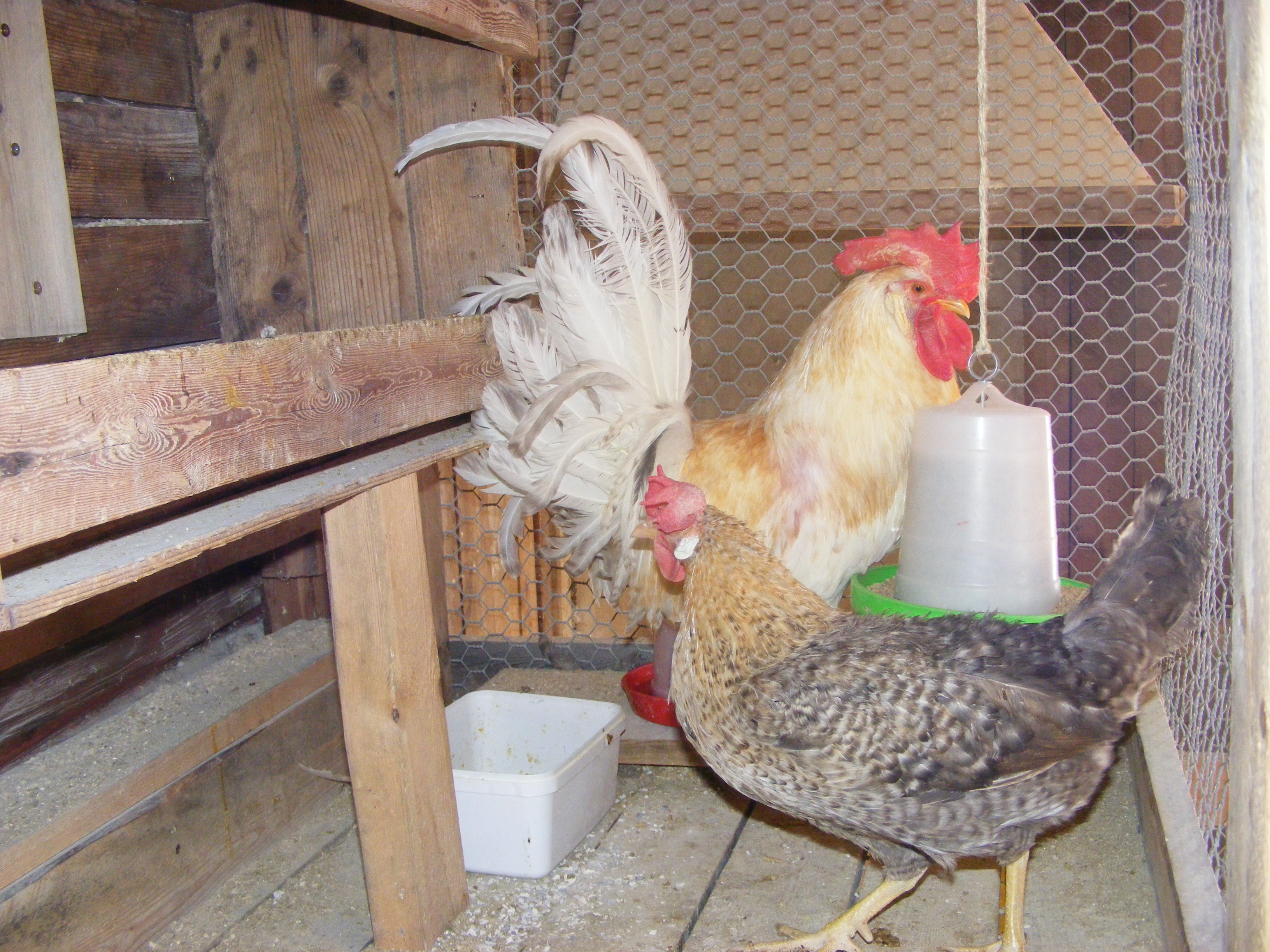 Norsk Jærhøne - This is the only Norvegian breed of poultry